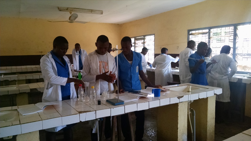 This shows science students in GBHS Tiko, SW-Cameroon carrying out Chemistry practical experiments This is an image of "African people at work" from Cameroon